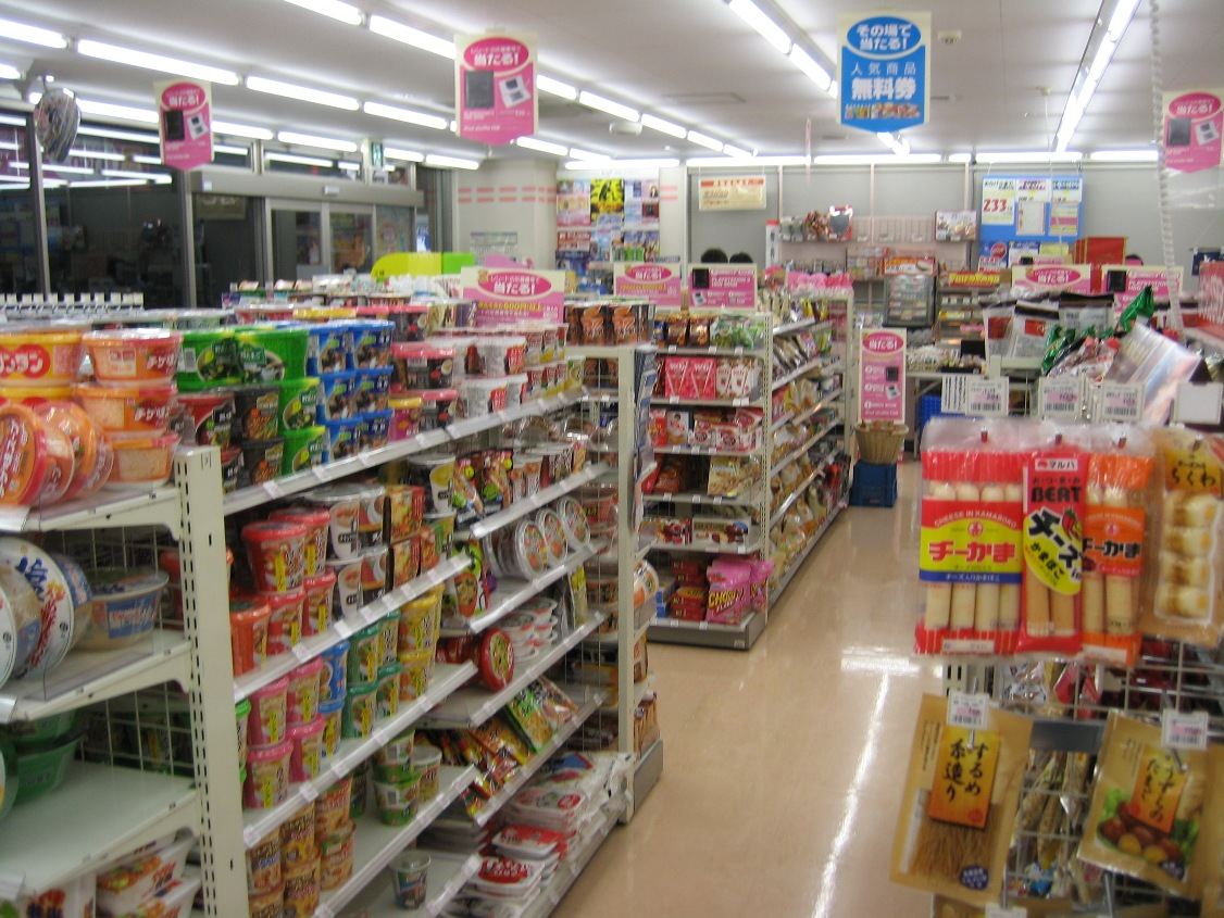 Inside a Lawson in Kita-Minemachi, Ota-ku, Tokyo, Japan.